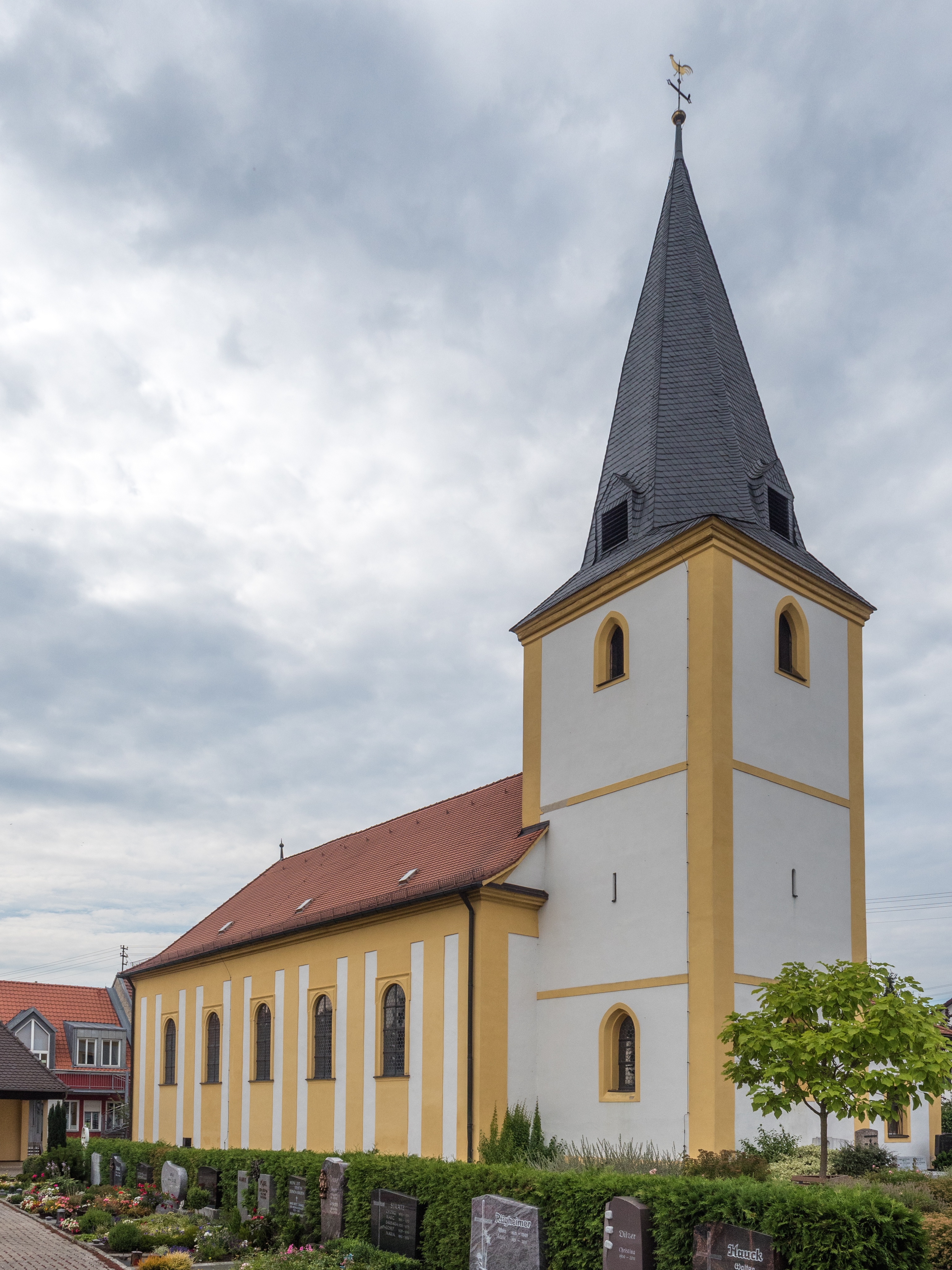 Catholic Church of St. Cyriac (Staffelbach)